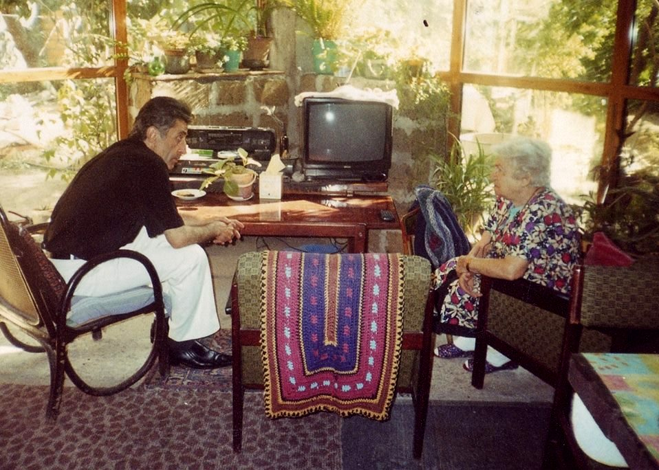 Meeting with Armine Galentz